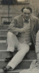 Photograph of Desmond MacCarthy